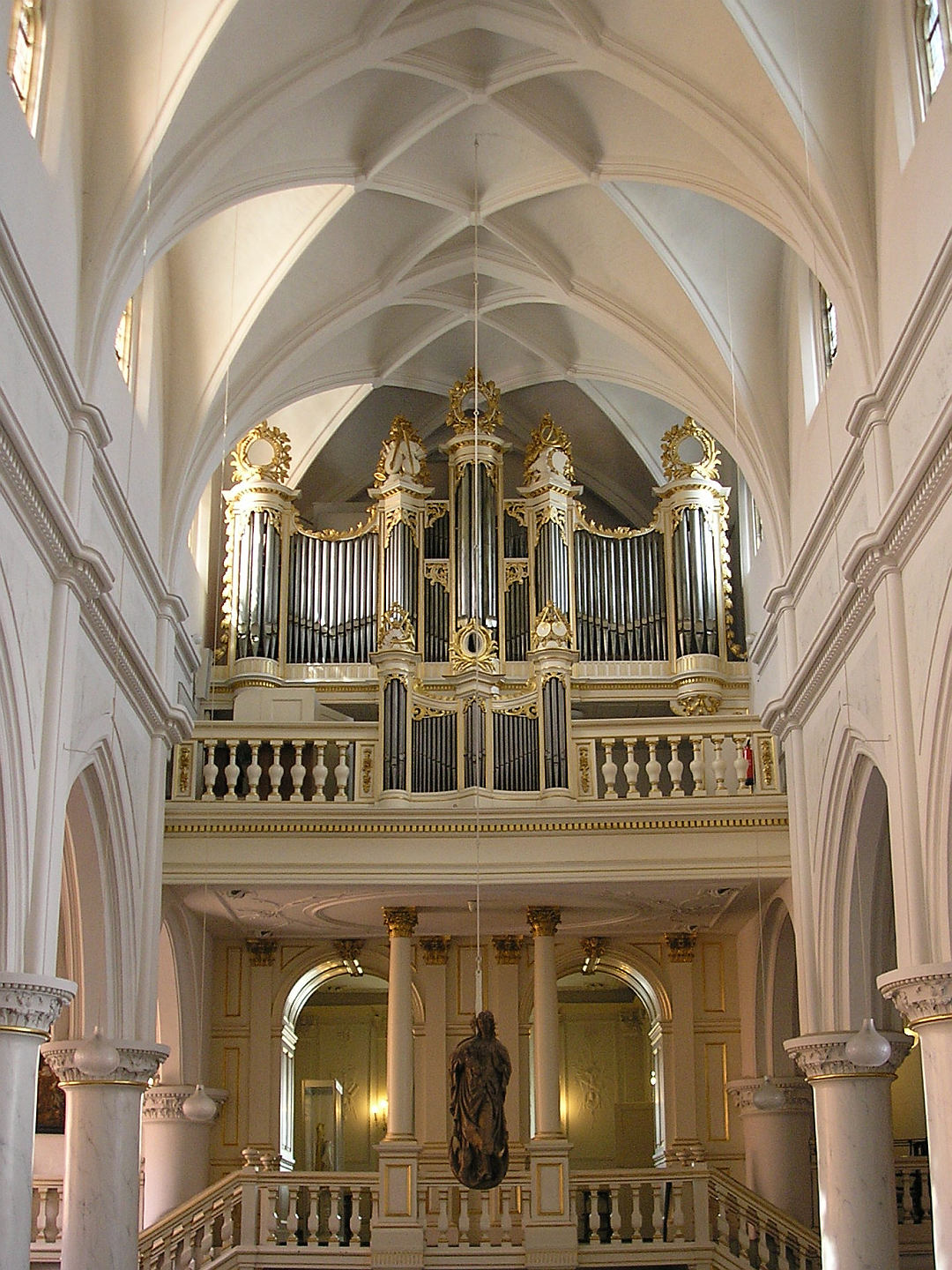 Organ in the abbey church of Thorn in the Netherlands. The original organ was installed by J.Fr. le Picard in 1741 but modified numerous times and ultimately lost completely in 1944. The current organ is built in 1951 by the Vermeulen bros. from Weert (NL) in a copy of the 1741 enclosure. Location: Thorn, Limburg, Netherlands